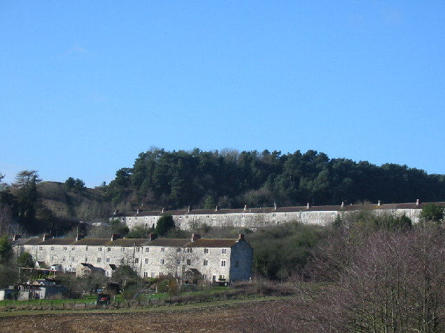 Lower Whitelands, Radstock